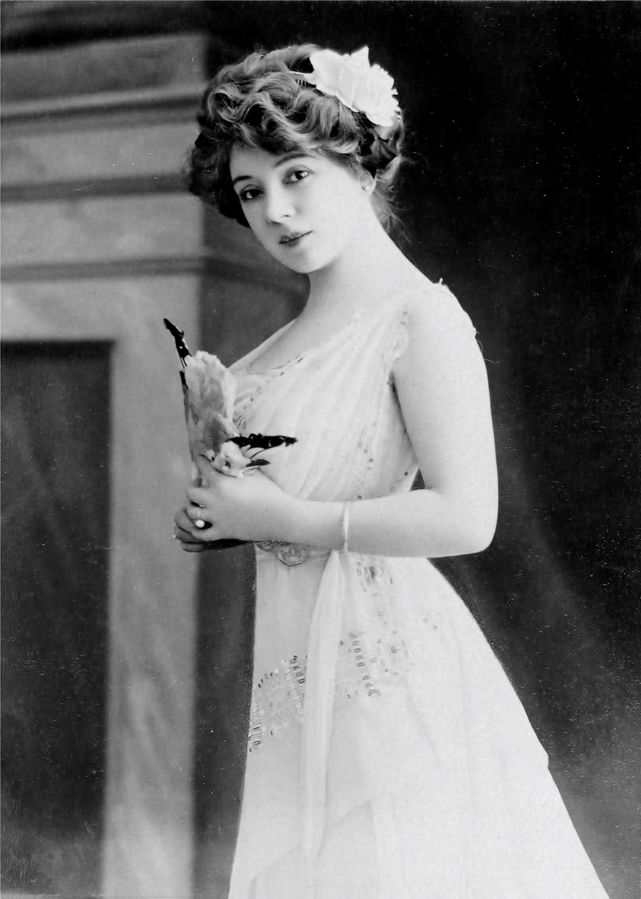 Amélie Diéterle is a French actress born in Strasbourg on 20 February 1871 and died in Cannes on 20 January 1941. She was legitimated in Paris in 1892 by Captain Louis Laurent, Knight of the Legion of Honor. Amélie Diéterle married in Vallauris on 16 June 1930 with André Simon (1877-1965). Amélie Diéterle plays mainly at the Théâtre des Variétés in Paris during the Belle Époque.